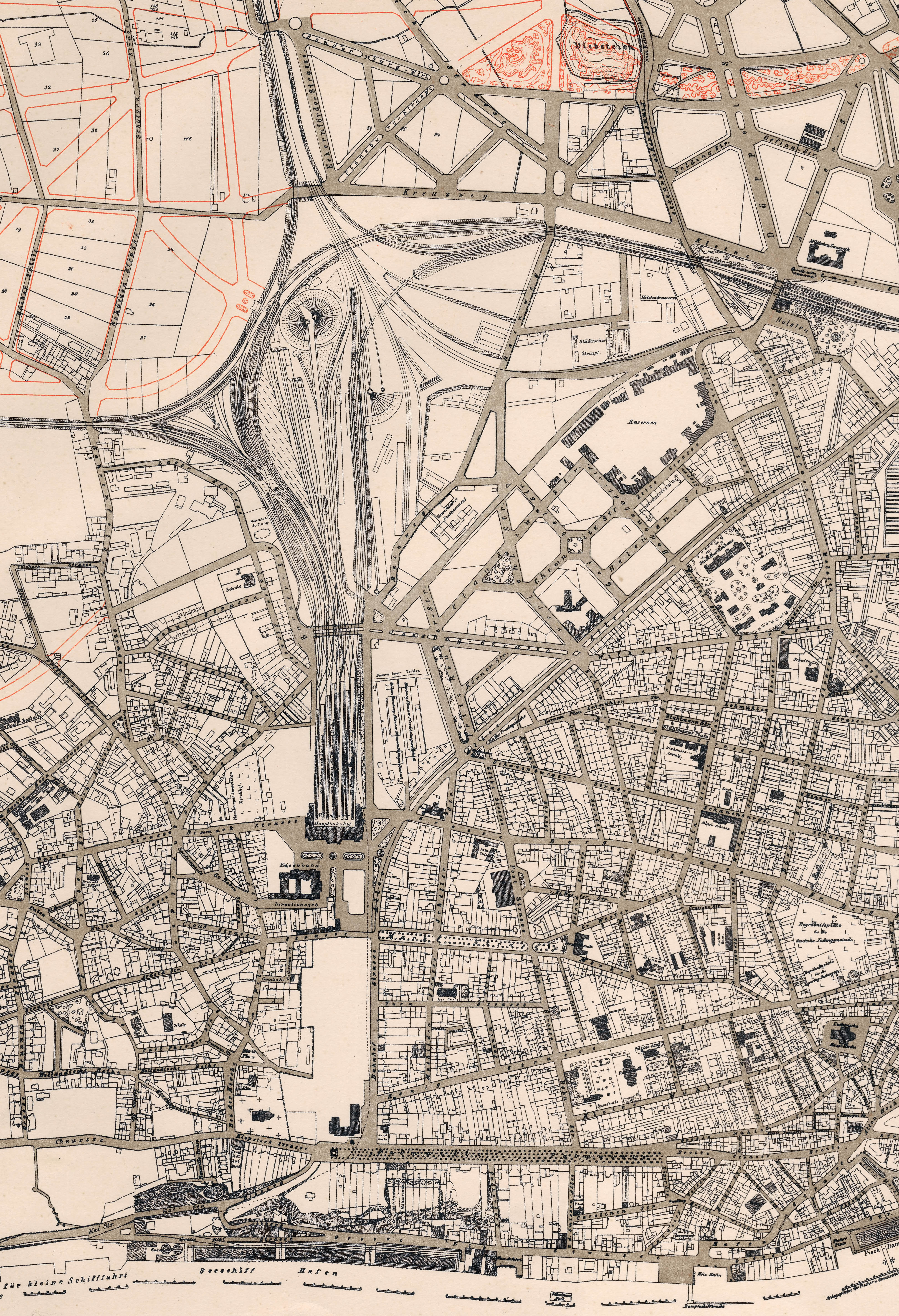 Map of head station Altona 1894